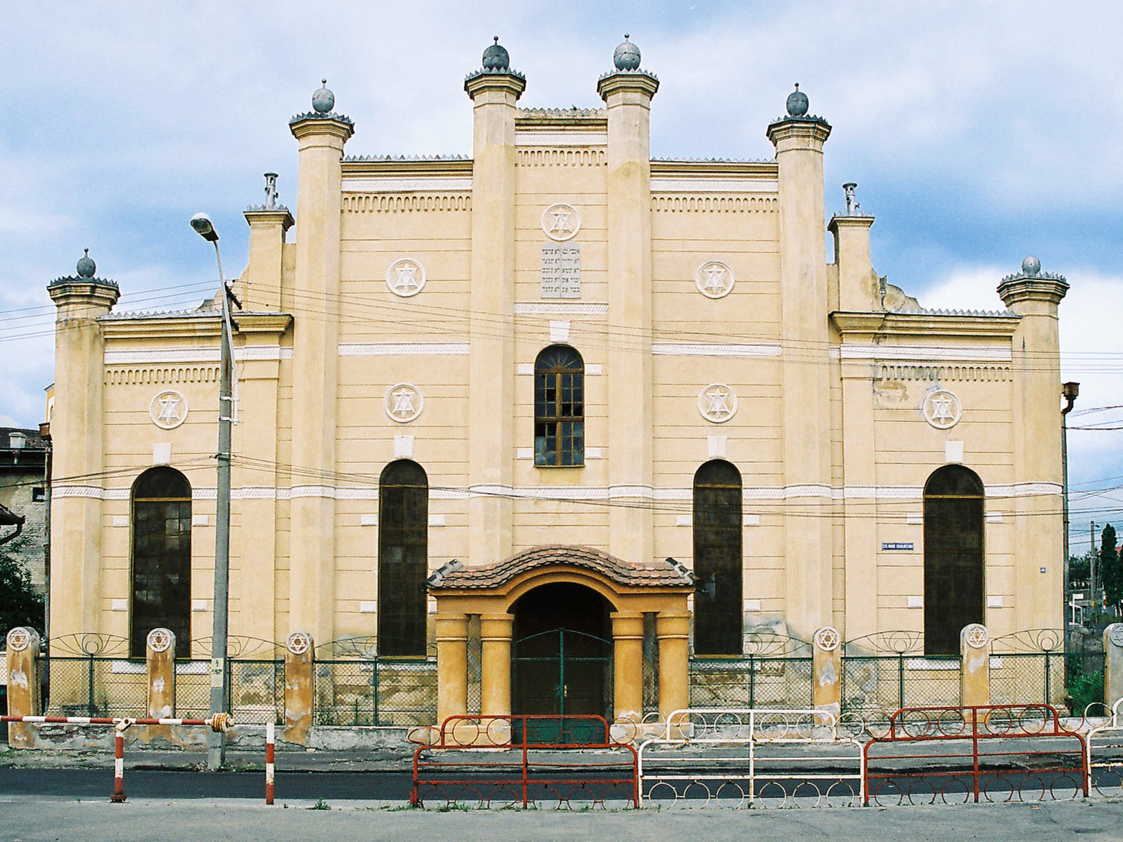 the synagogue of Mediaş/Mediasch/Medgyes